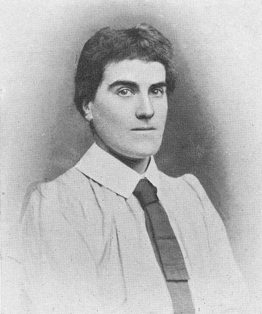 Bertha Steedman, English tennis player, won the doubles at Wimbledon 9 times in between 1889 and 1899.